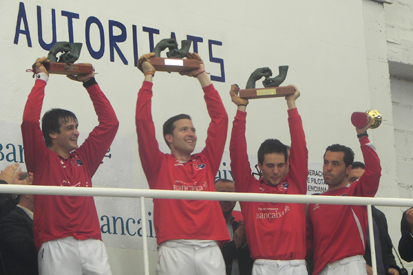 Winners of the 2009/10 Circuit Bancaixa: (left to right) Genovés II, Salva, Nacho and Pedrito